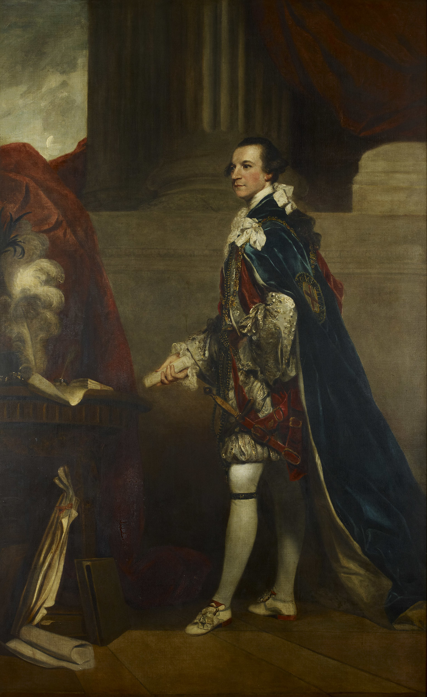 Charles Watson-Wentworth, Second Marquis of Rockingham